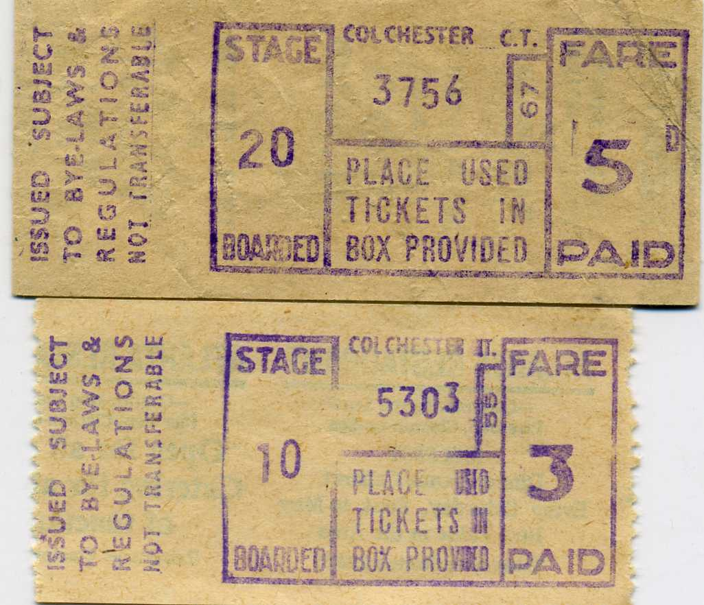 Colchester Corporation Transport TIM Tickets